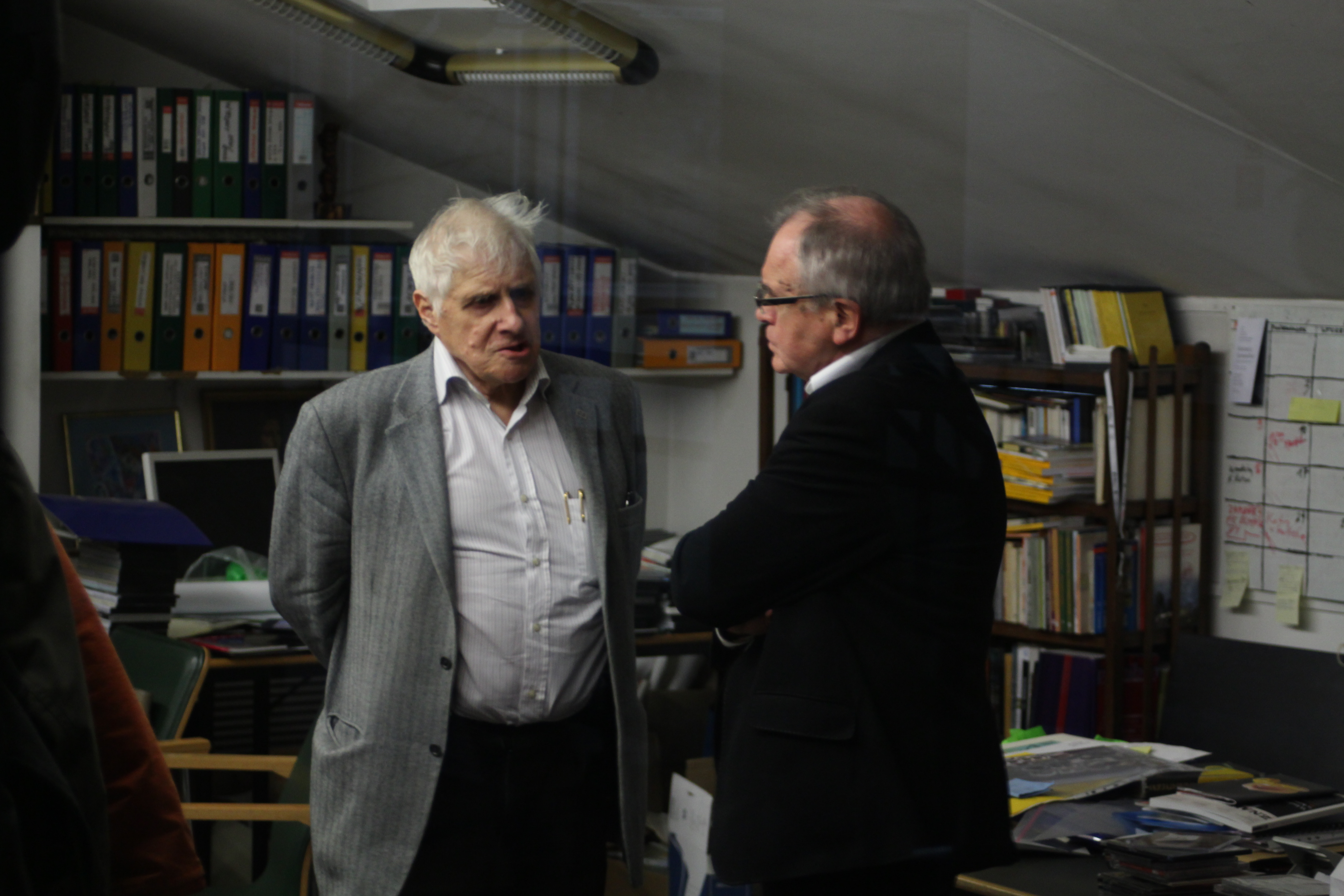 Neuroscientist Jerzy Vetulani (left) and film historian Tadeusz Lubelski in a conversation. Judaica Foundation – Center For Jewish Culture, 17 Meiselsa Street, Kraków.